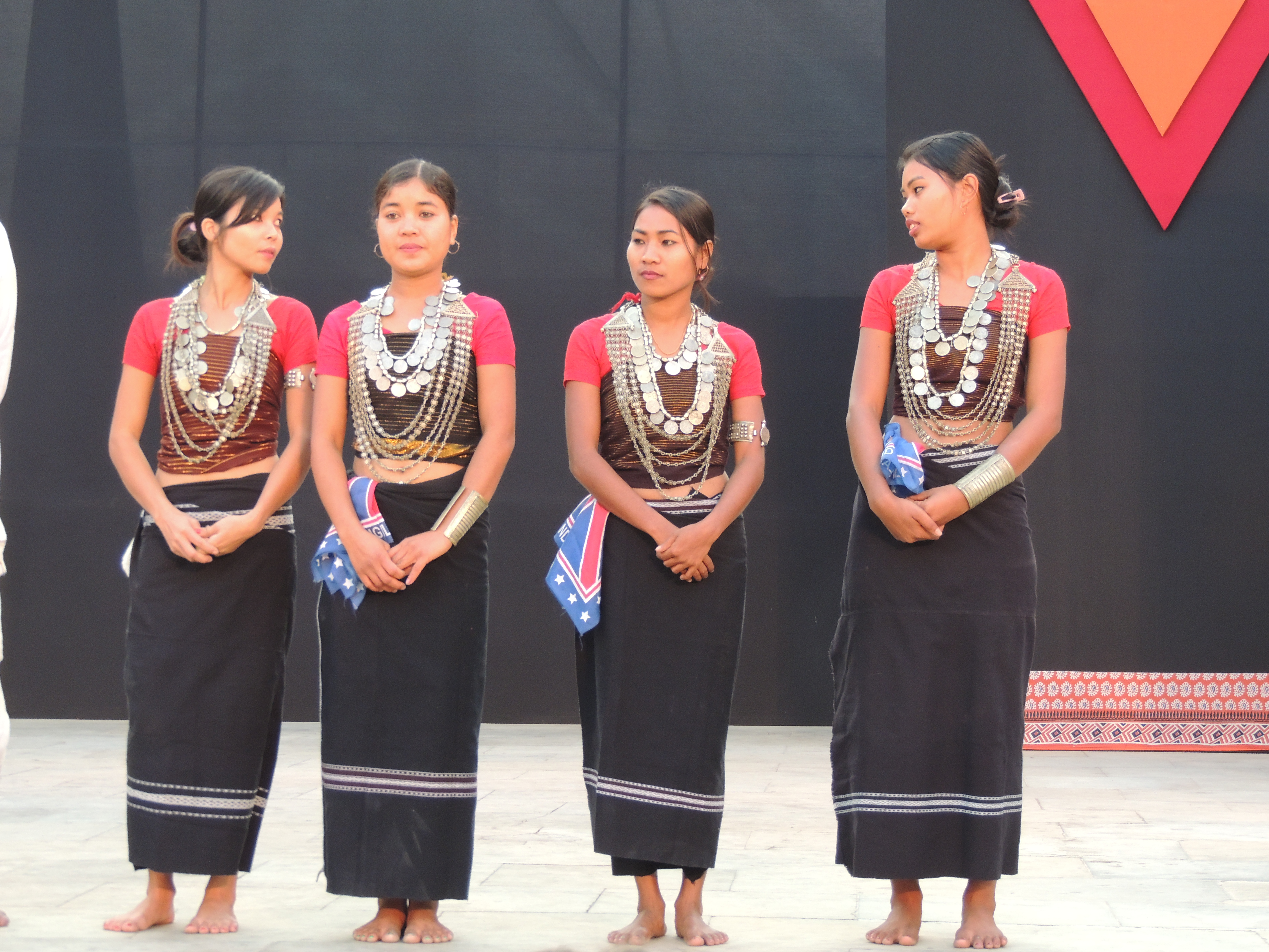 Hojagiri Dance at New Delhi World Book Fair 2013